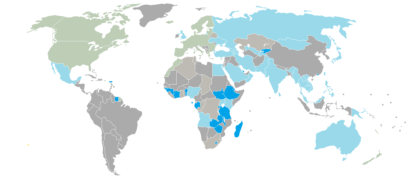 Electronic visas Countries granting electronic visas universally Countries granting electronic visas to select nationalities Countries requiring electronic registration from most visa exempt visitors